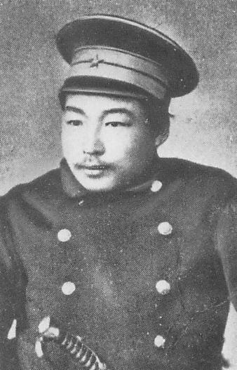 Sei Arao